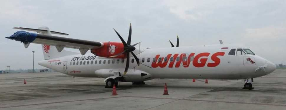 Wings Air PK-WFF damage